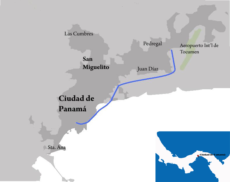 Corredor Sur, Panama City, Panama.